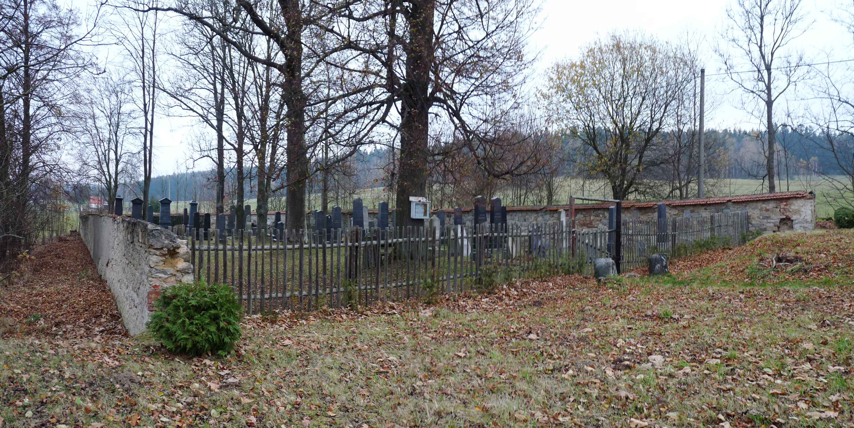 Jewish cemetery by the town of Nová Bystřice, Jindřichův Hradec District, South Bohemian Region, Czech Republic, as seen from the south.